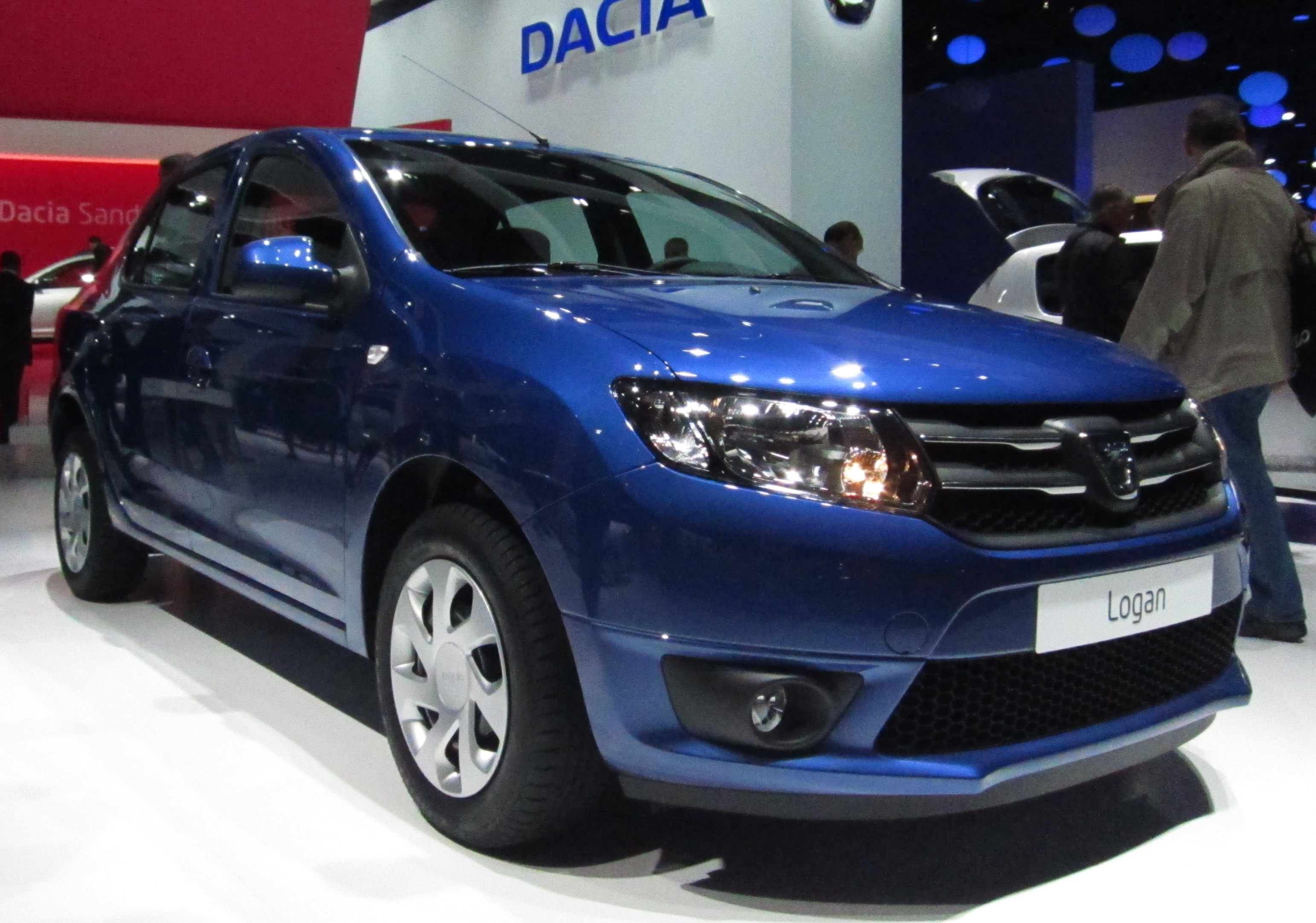 Dacia Logan II at Mondial de l'Automobile Paris 2012